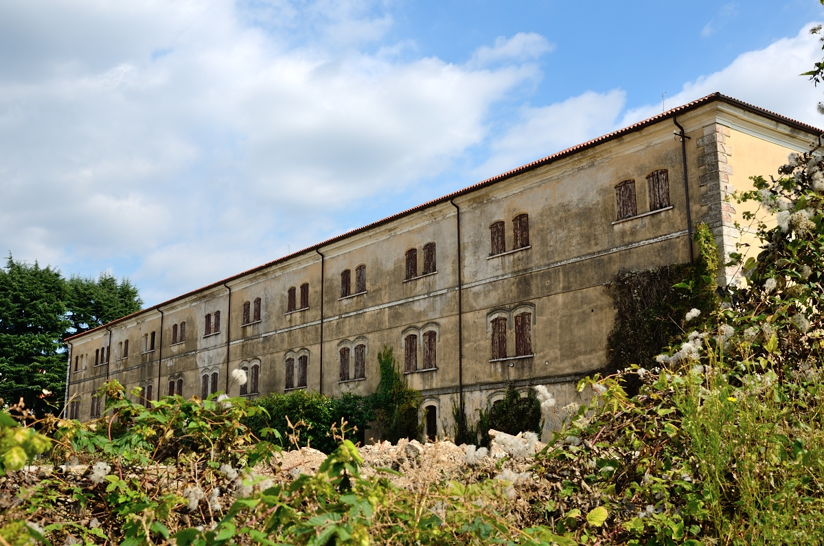 Ex caserma Cella, Schio